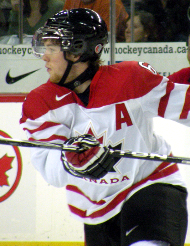 Canadian junior defenceman Ryan Ellis during an exhibition game against the Finnish junior team at Calgary, Alberta.